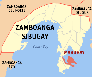 Map of the Zamboanga Sibugay showing the location of Mabuhay